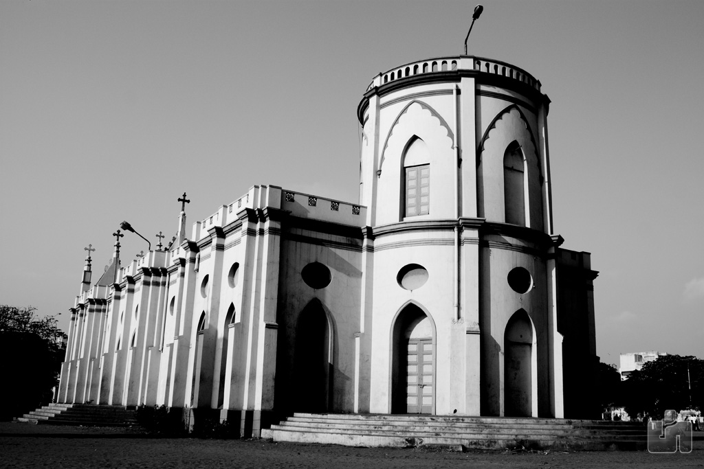 St. Peter's Church at Royapuram. Shot during the 28th Chennai photowalk.